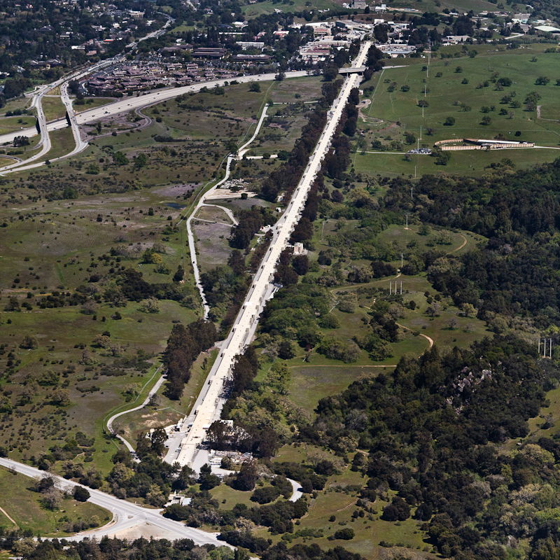 Aerial view of the SLAC National Accelerator Laboratory in Menlo Park, California